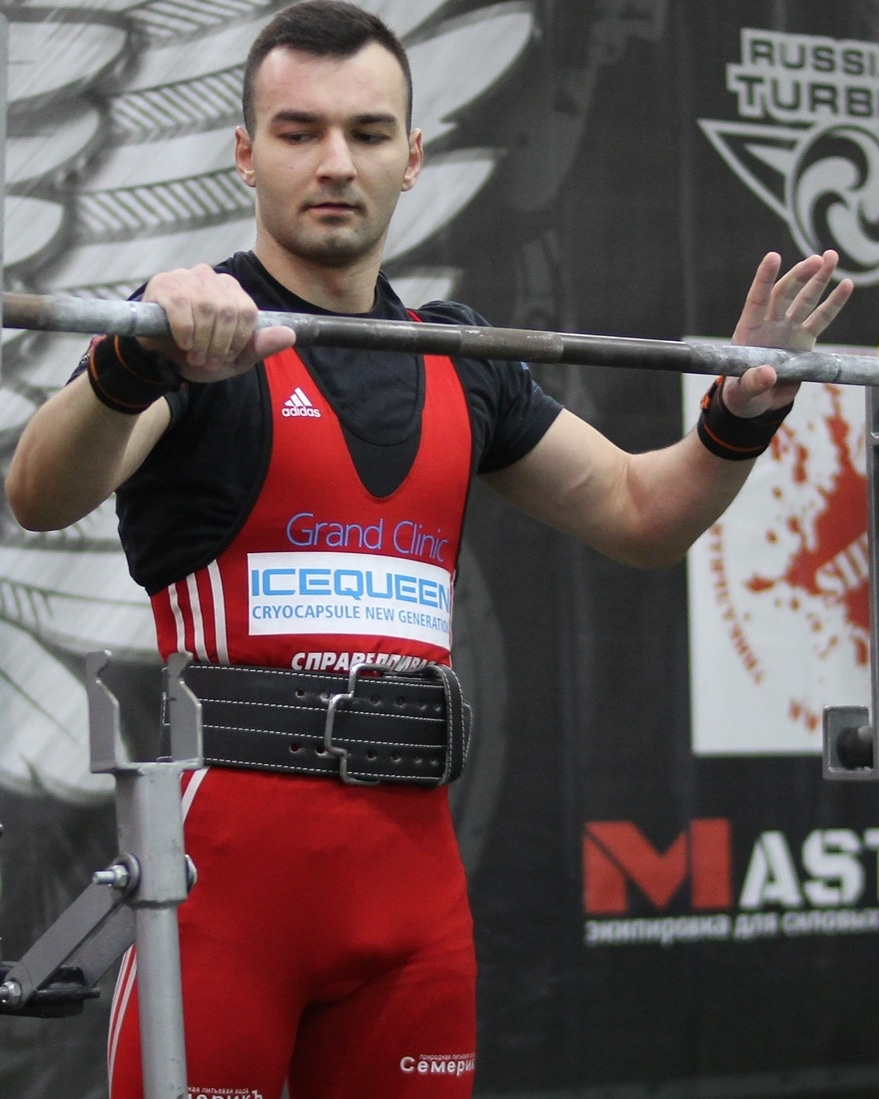 Чемпион